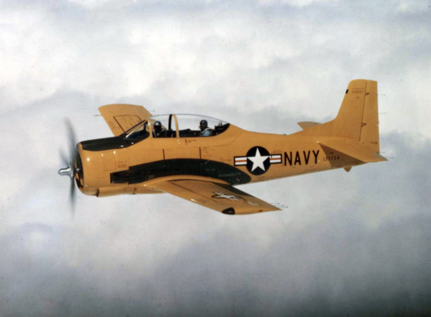 An early production U.S. Navy North American T-28B Trojan (BuNo 137724) in flight over Southern California (USA), circa 1954.